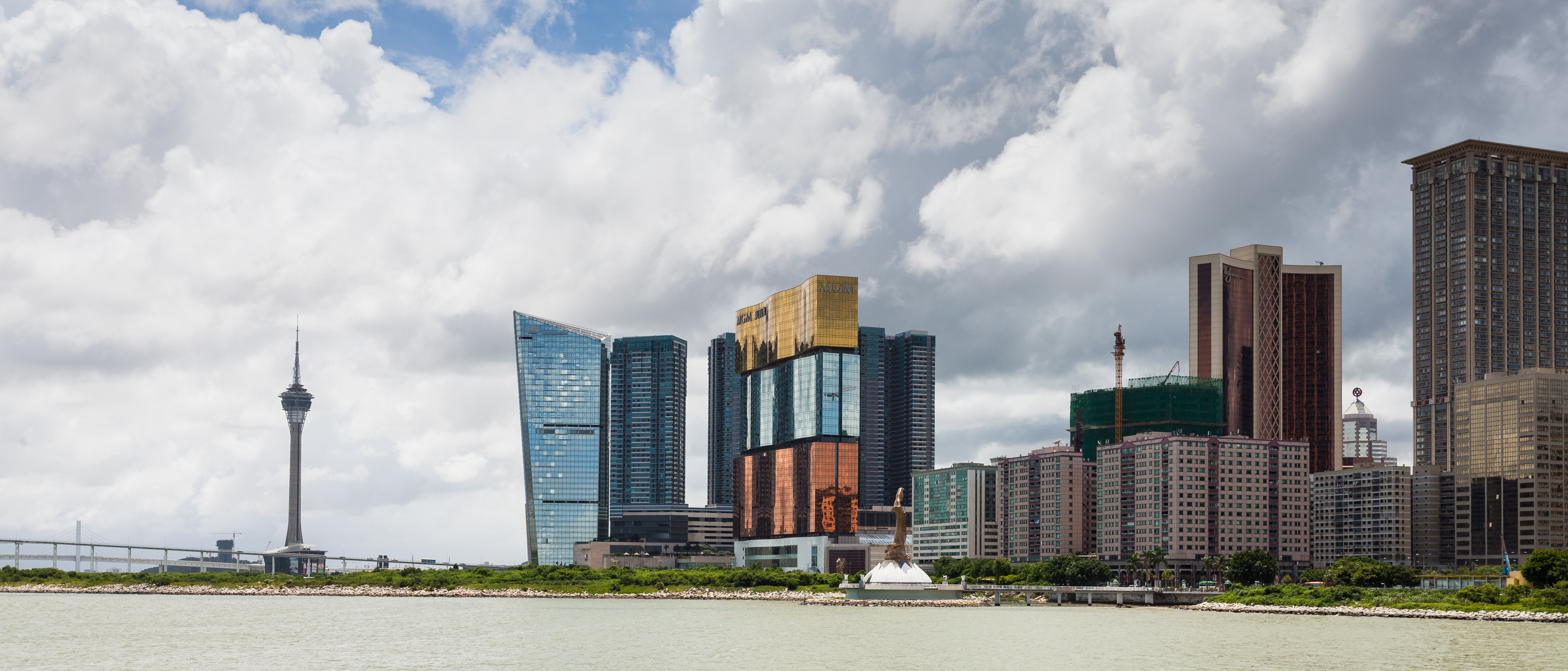 View of the casinos from Science Center, Macau